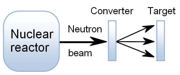 Wide angle irradiation with fission fragments from a neutron converter. R. Spohr, (1990) Ion tracks and microtechnology, Vieweg Verlag